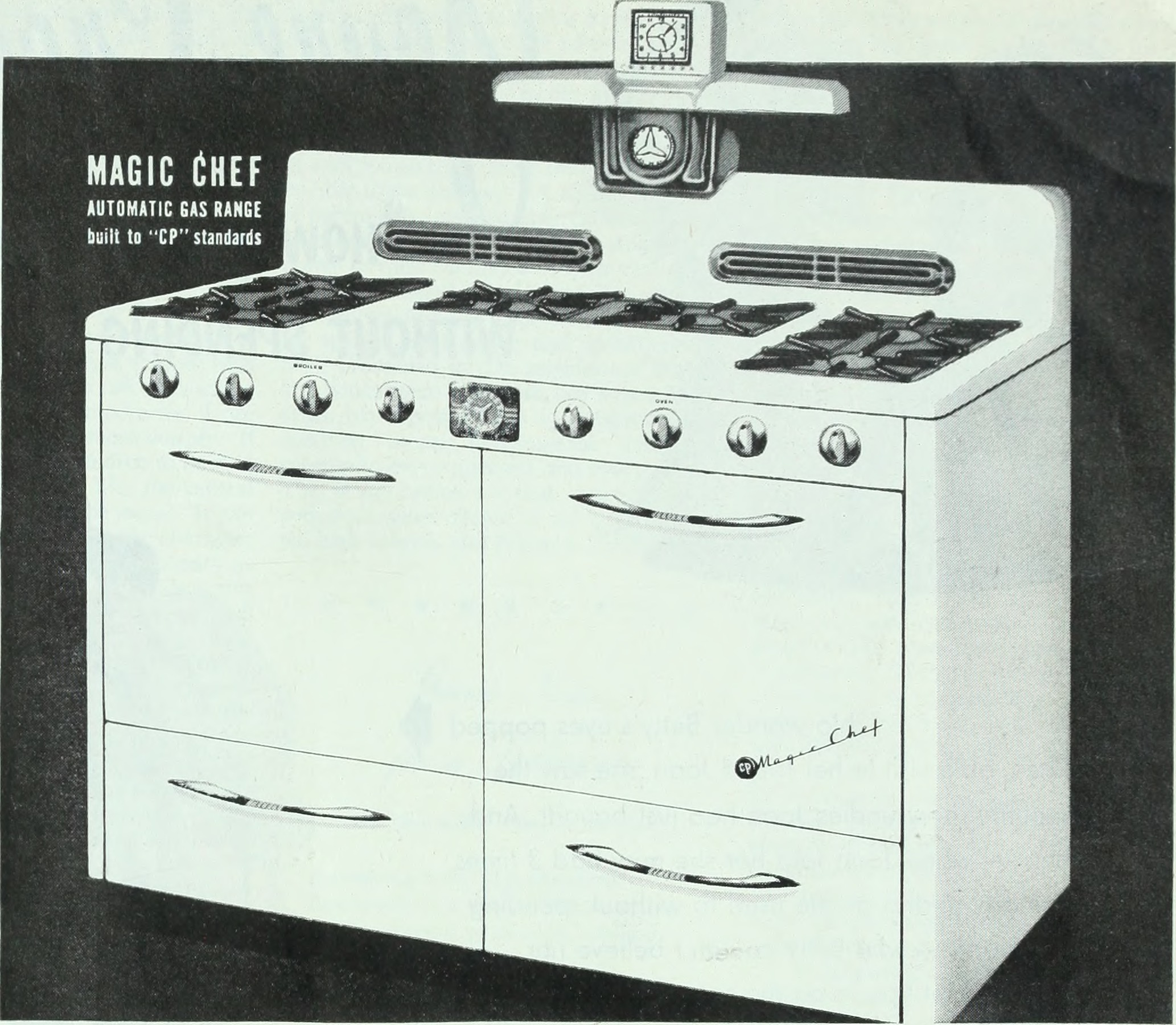 Title: The Ladies' home journal Year: 1889 (1880s) Authors: Wyeth, N. C. (Newell Convers), 1882-1945 Subjects: Women's periodicals Janice Bluestein Longone Culinary Archive Publisher: Philadelphia : (s.n.) Text Appearing Before Image: theblazing logs and talk with old friends. ForAuld Lang Syne. Happy New Year—onceagain from your Annie. I L/\uit,3 nuivic juunnAL Dont cook another meal until you see the lew rab your hat — and come on! Here is somethingogood to be missed! Its the new, modern, automaticas range that gives you the fastest, finest, easiestioking in the world. Actually, this six-burnerAGIC CHEF is just one of the many models andnakes of Gas ranges built to CP standards.Maybe youd rather have 4 burners, or 8 burners-or 3 burners and a deep-well cooker—or a specialiilt-in griddle — or even 2 full size baking ovens,ny one of these combinations is now avail- .—..)le. But whichever make or model you / I IT) \der, if it carries this CP seal, you get I.-.// Je worlds finest cooking fuel combined ^^^ith a range specifically designed to give you theorlds best cooking results! Make it the first stepward your New Freedom Gas Kitchen*—today! MERICAN GAS ASSOCIATION 0 LEXINGTON AVENUE. NEW YORK 17. N. Y. Text Appearing After Image: •Cert. Mark. Amer. Gas Assoc, inc. automatic